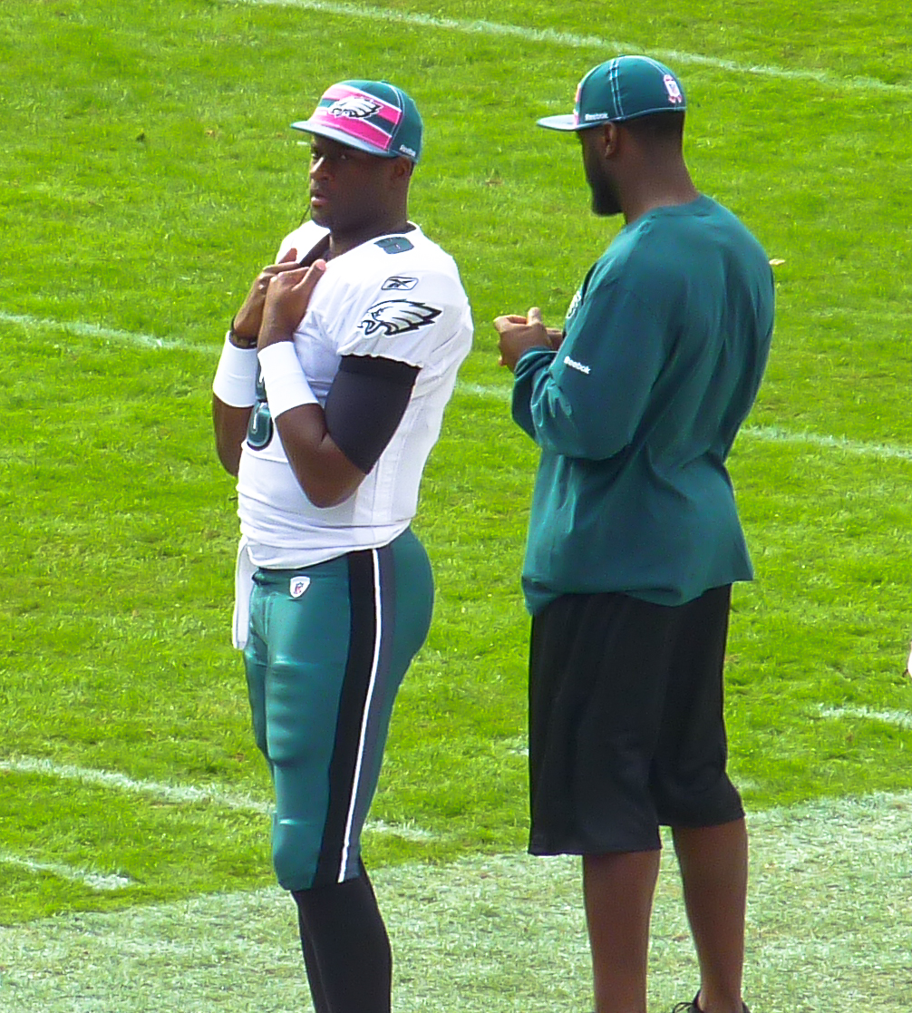 Vince Young on the sidelines after throwing an interception. Eagles vs Redskins 10.16.2011